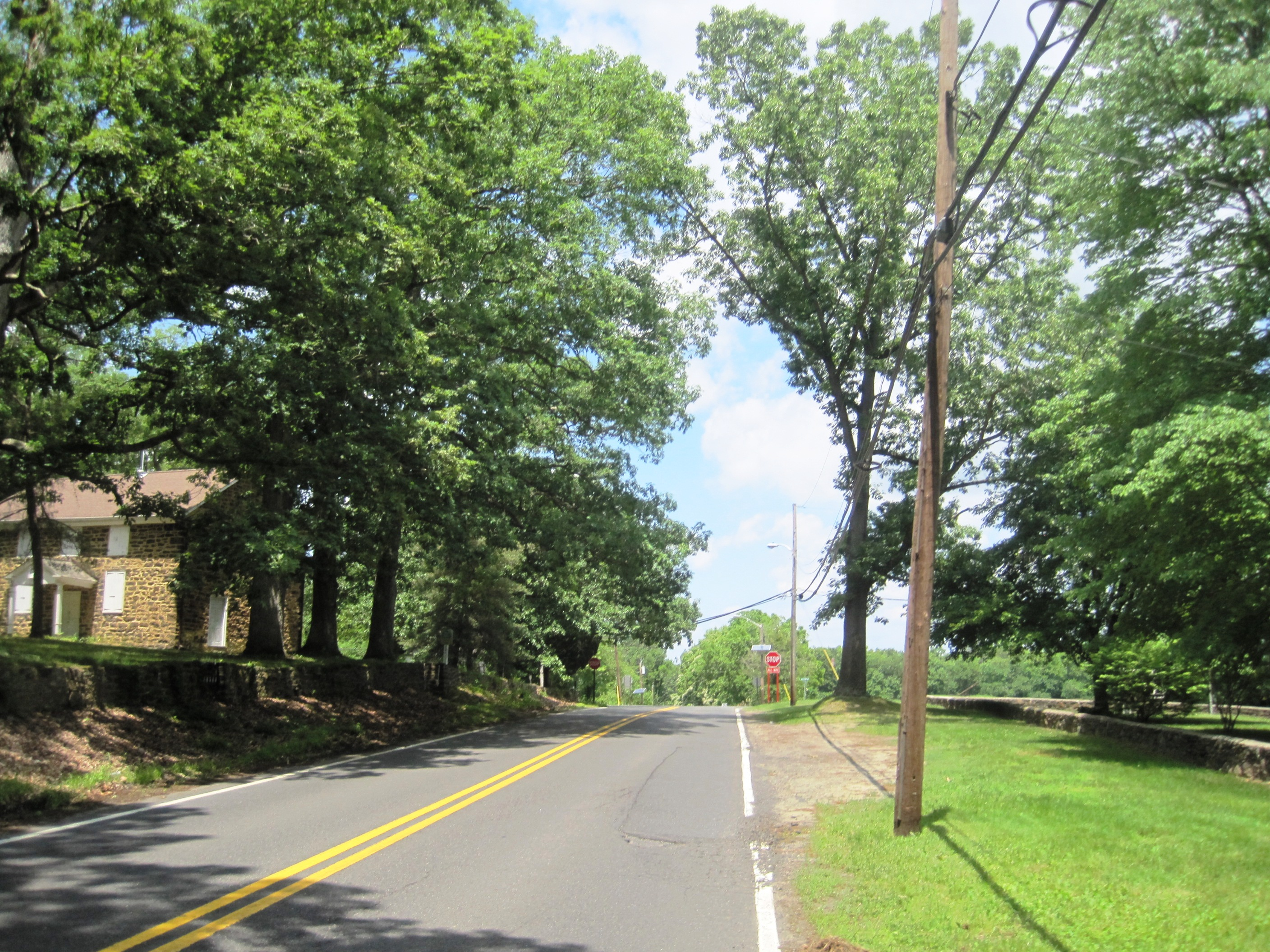 Photo of the unincorporated community of Arneys Mount, New Jersey within Springfield Township, Burlington County. Photo taken on northbound Arneys Mount Road (County Route 668) approaching Juliustown Road (CR 669).